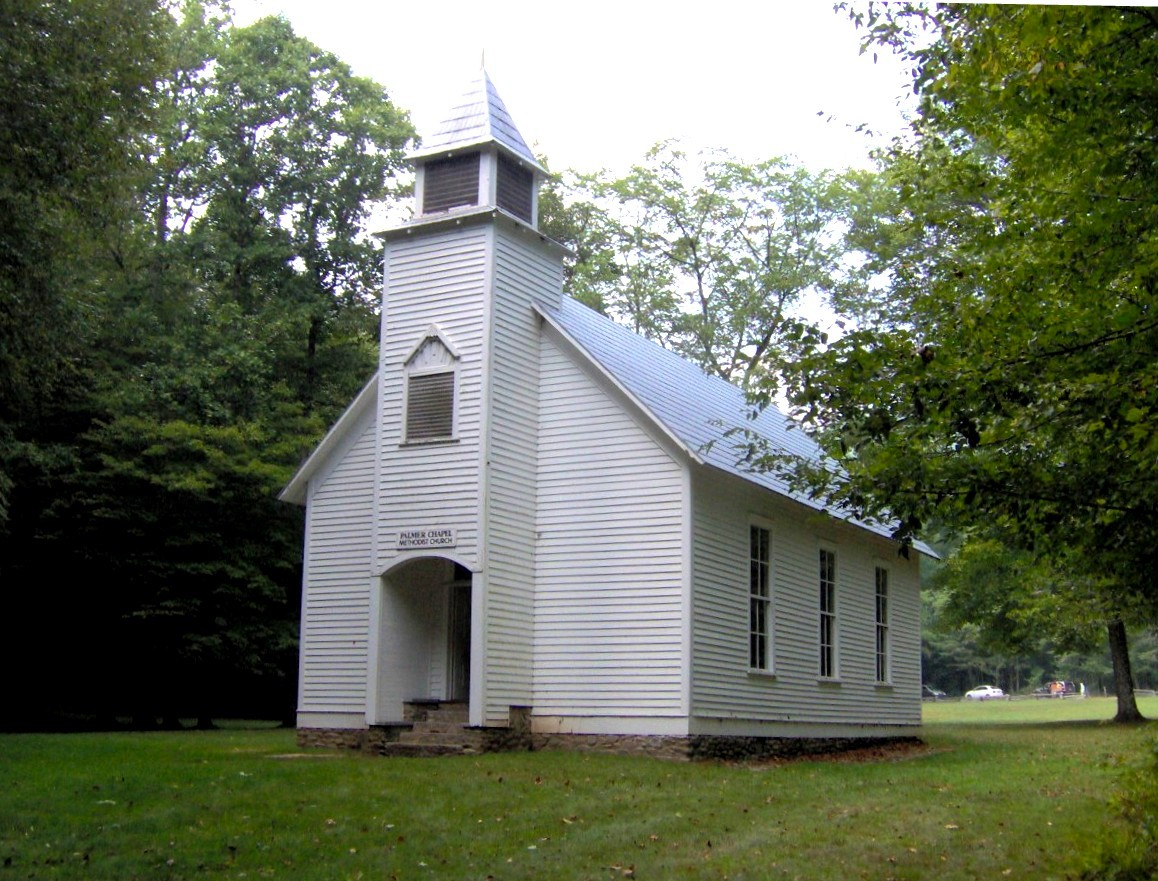 Palmer Chapel in Big Cataloochee, built in 1898 on land deeded by Mary Ann Caldwell. The chapel was used primarily by the Methodists.